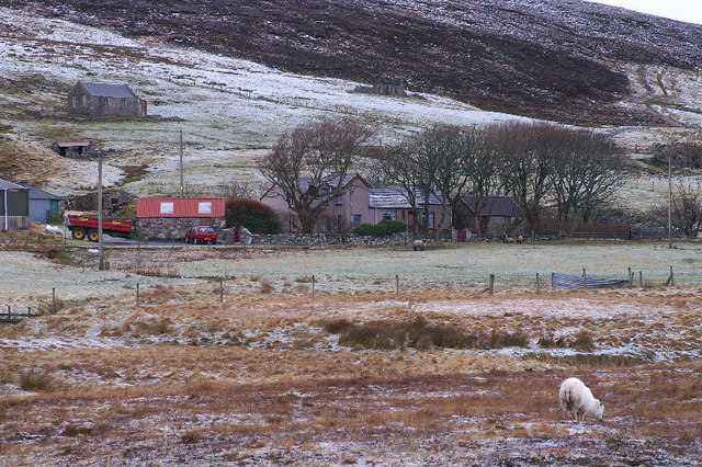 Gillaburn, Stromfirth In this part of central Mainland there are several farms with a few trees around them, making the area look more like upland England than Shetland at times.